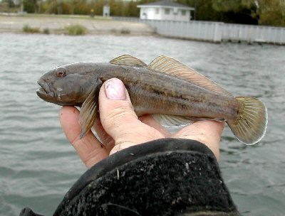 Neogobius melanostomus. Photo of Round goby.